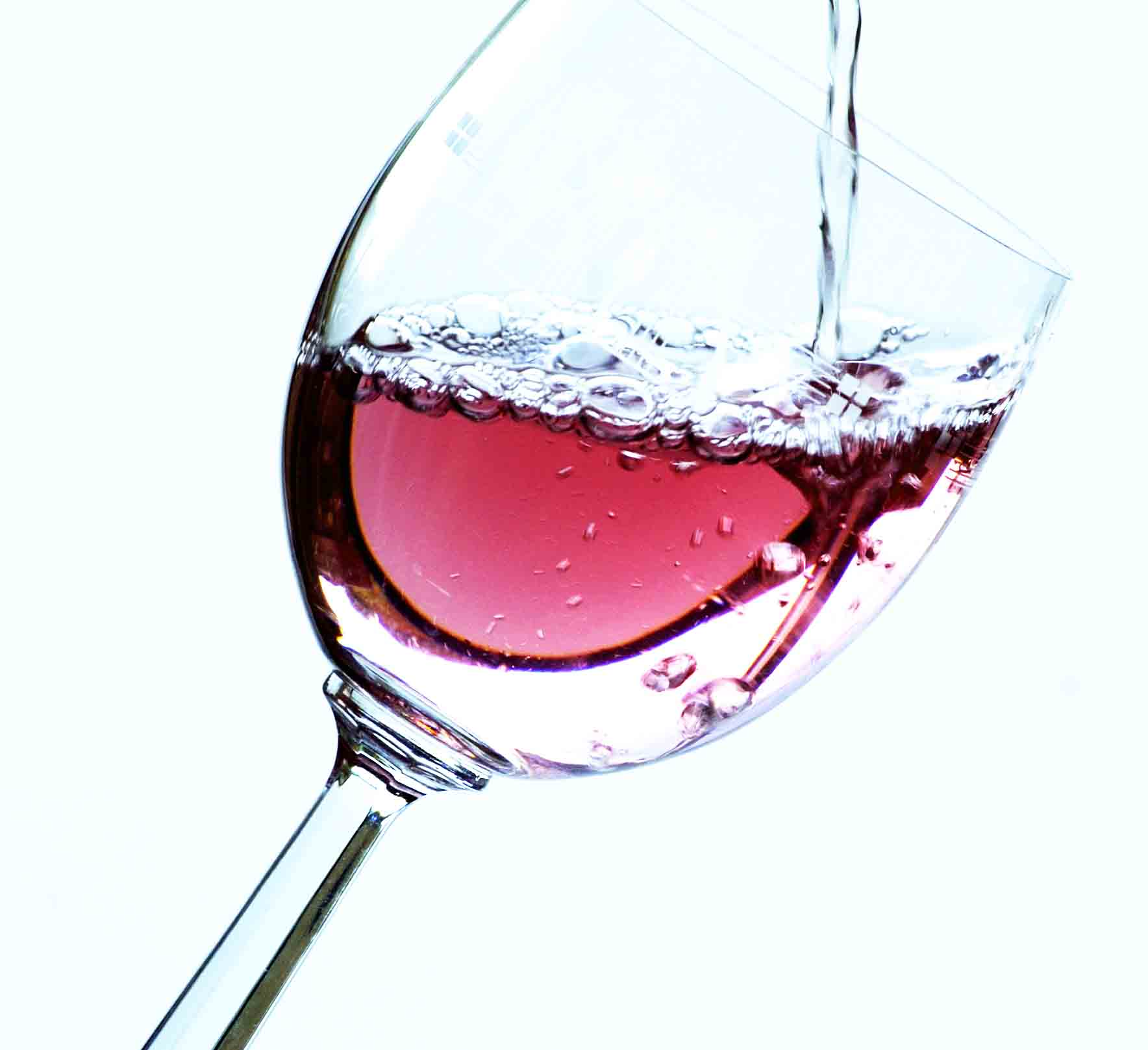 A glass being full of rosé wine